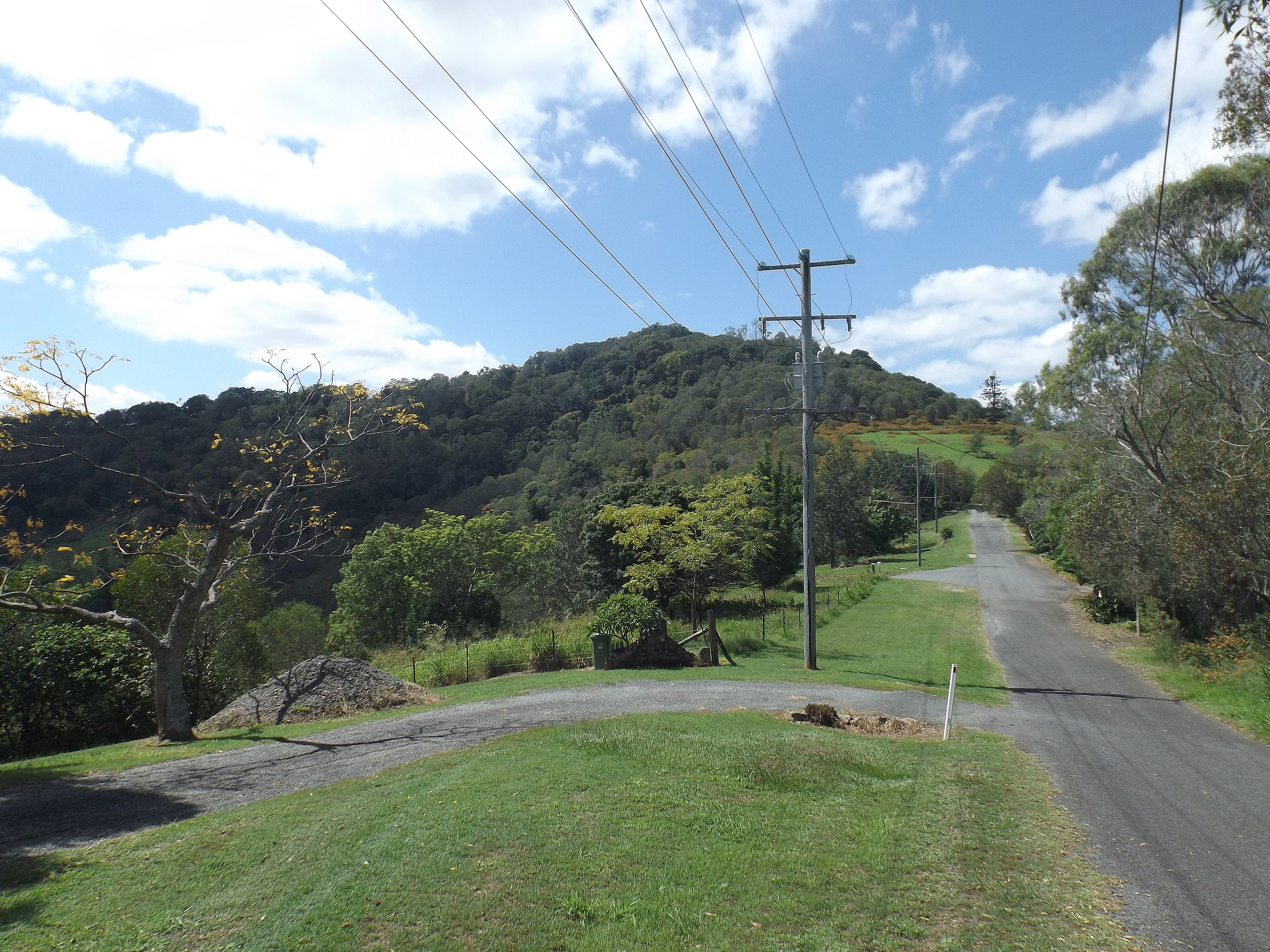 Photo of Needham Road in Luscombe, City of Logan, Queensland, Australia.